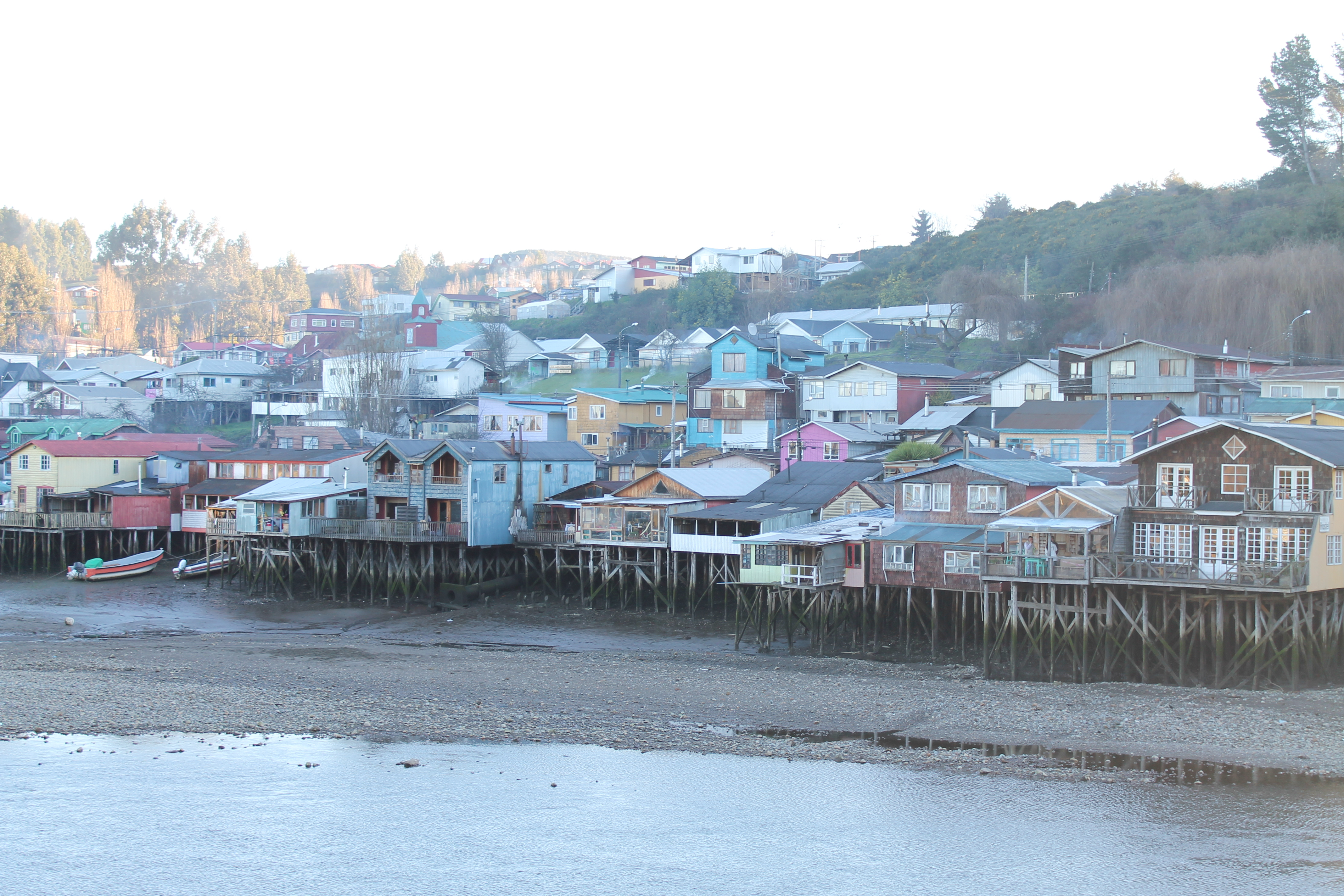 Palafitos en Chiloé, Región de Los Lagos, Chile.